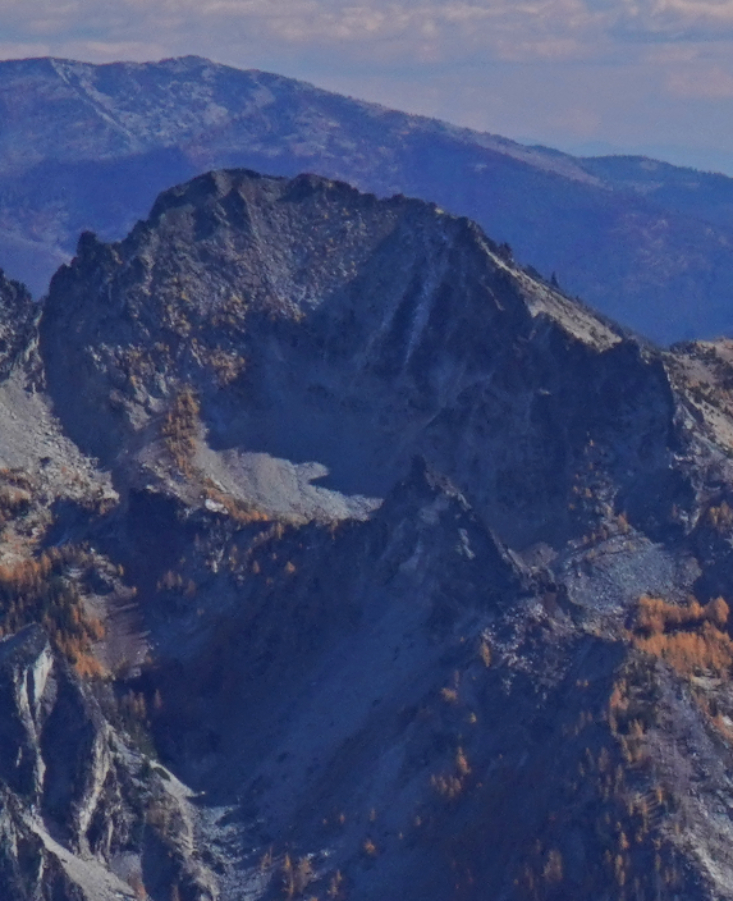 West aspect of Pinnacle Mountain seen from Mt. Maude